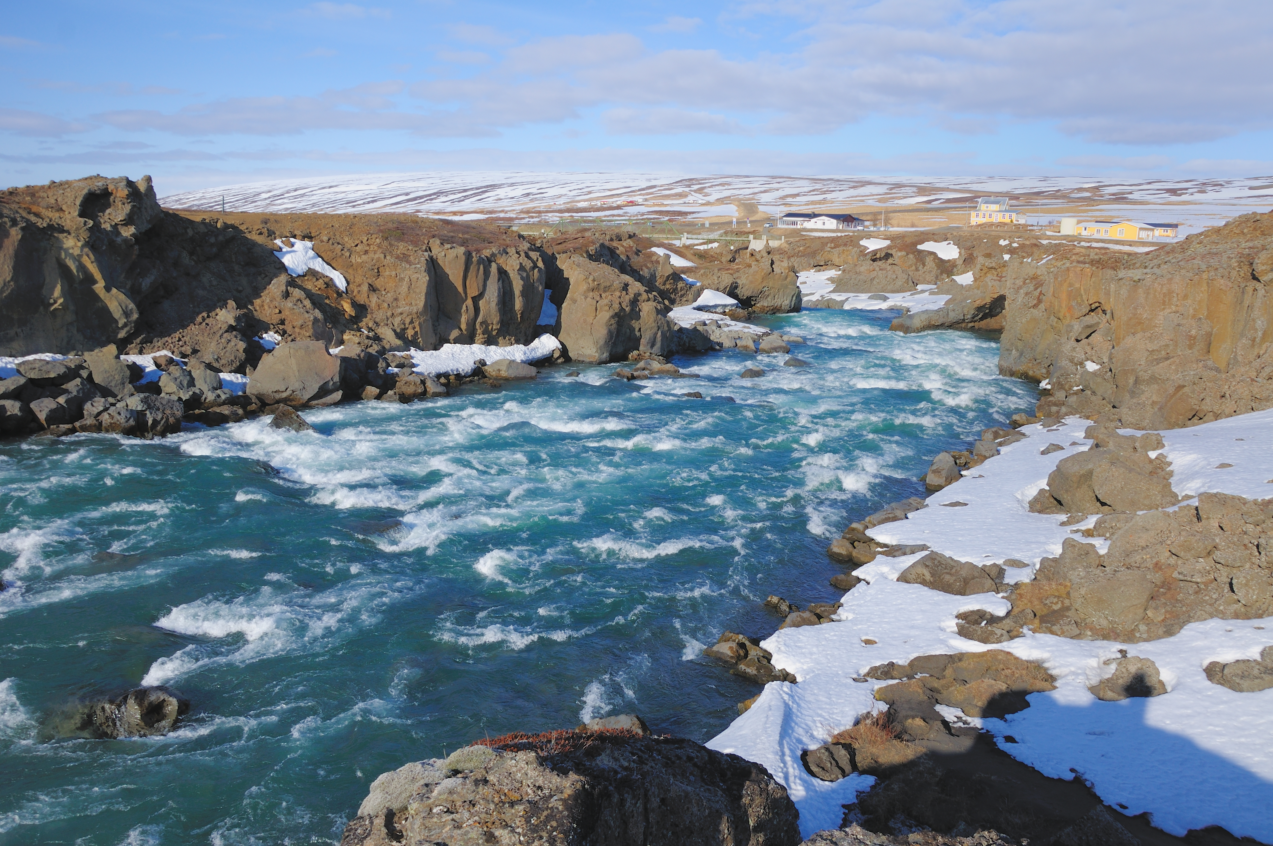 Iceland, Skjálfandafljót below Goðafoss